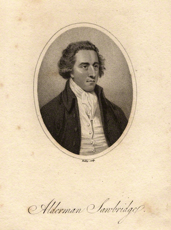 Portrait of John Sawbridge (1732–1795), English politician.